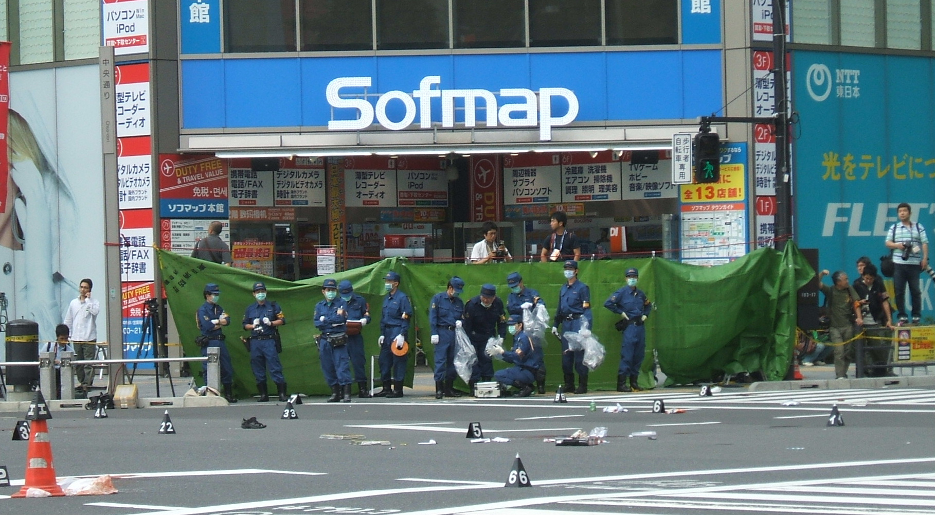 Intersection where the suspect's truck struck pedestrians in the so-called Akihabara Massacre. Pictured are inspectors surveying the scene, as well as blood-stained towels and personal items (thought to belong to the victims) scattered on the street.